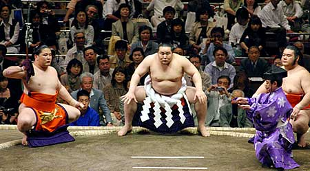 Ring-entering ceremony by Yokozuna Asashoryu.